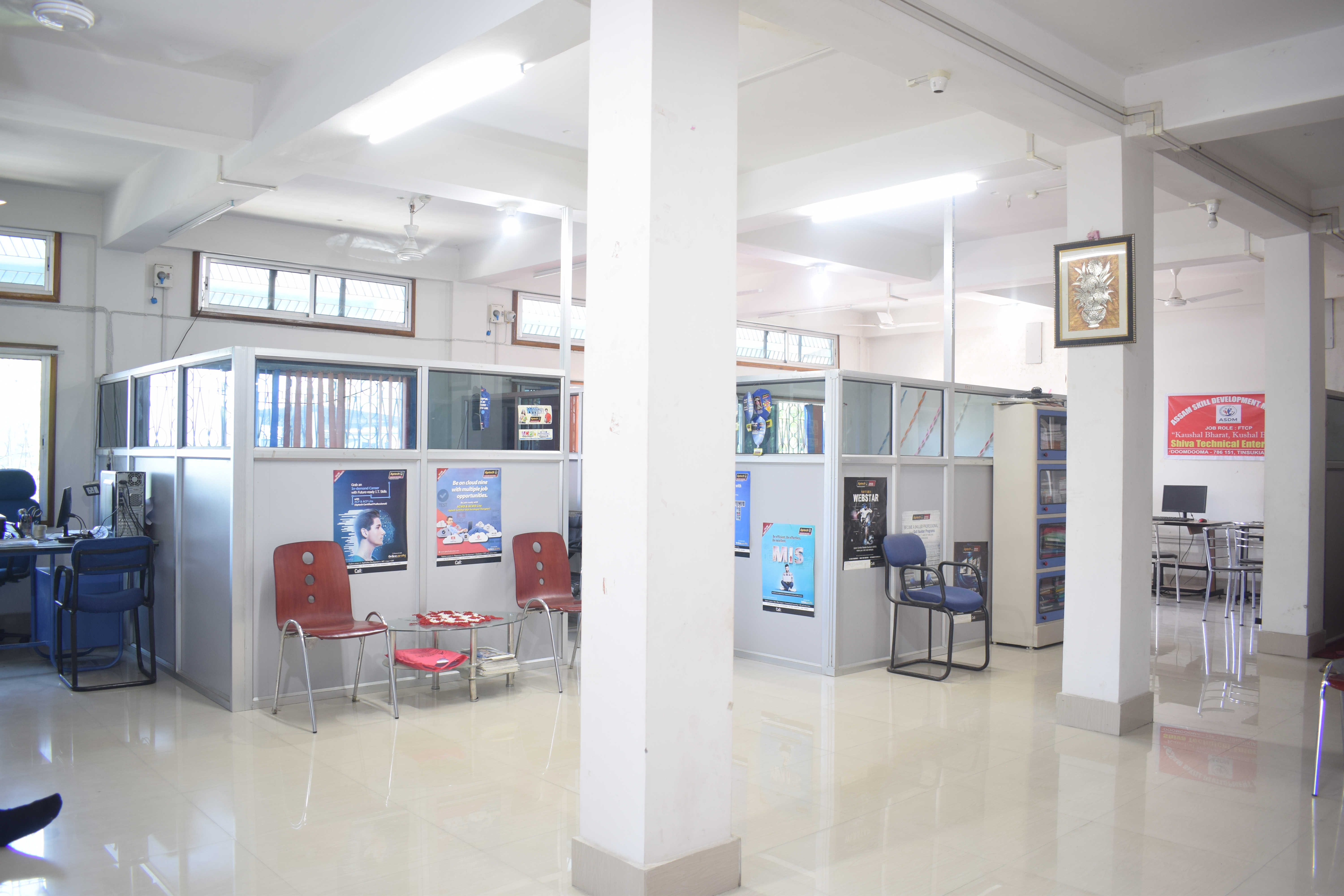 rupai extension